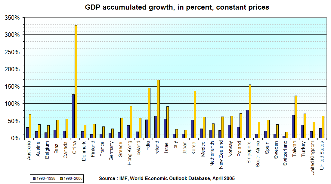 Gross domestic product growth in the advanced economies, accumulated for the periods 1990 - 1999 and 1990 - 2006.